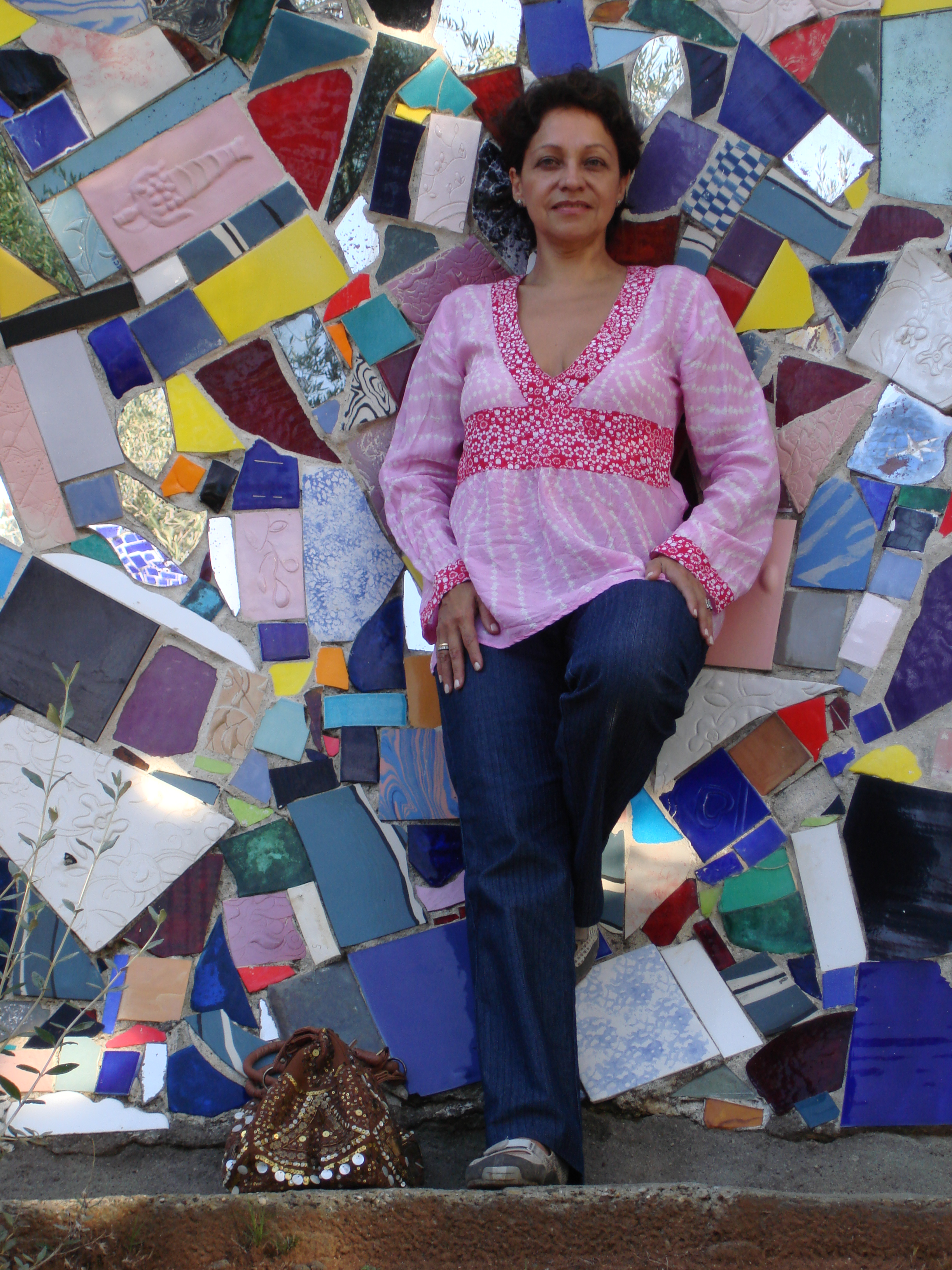 The file is a photography of a venezuelan filmarker call Margarita Cadenas.